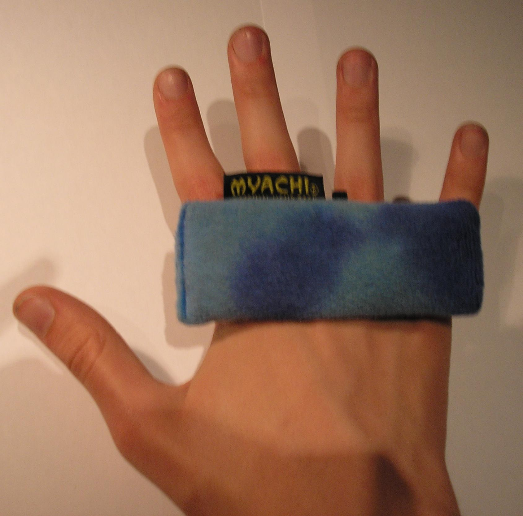 Position of the Myachi in the hand. Posición del myachi en la mano.